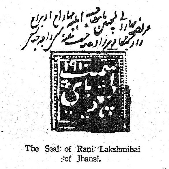 The Seal of Rani Lakshmibai of Jhansi